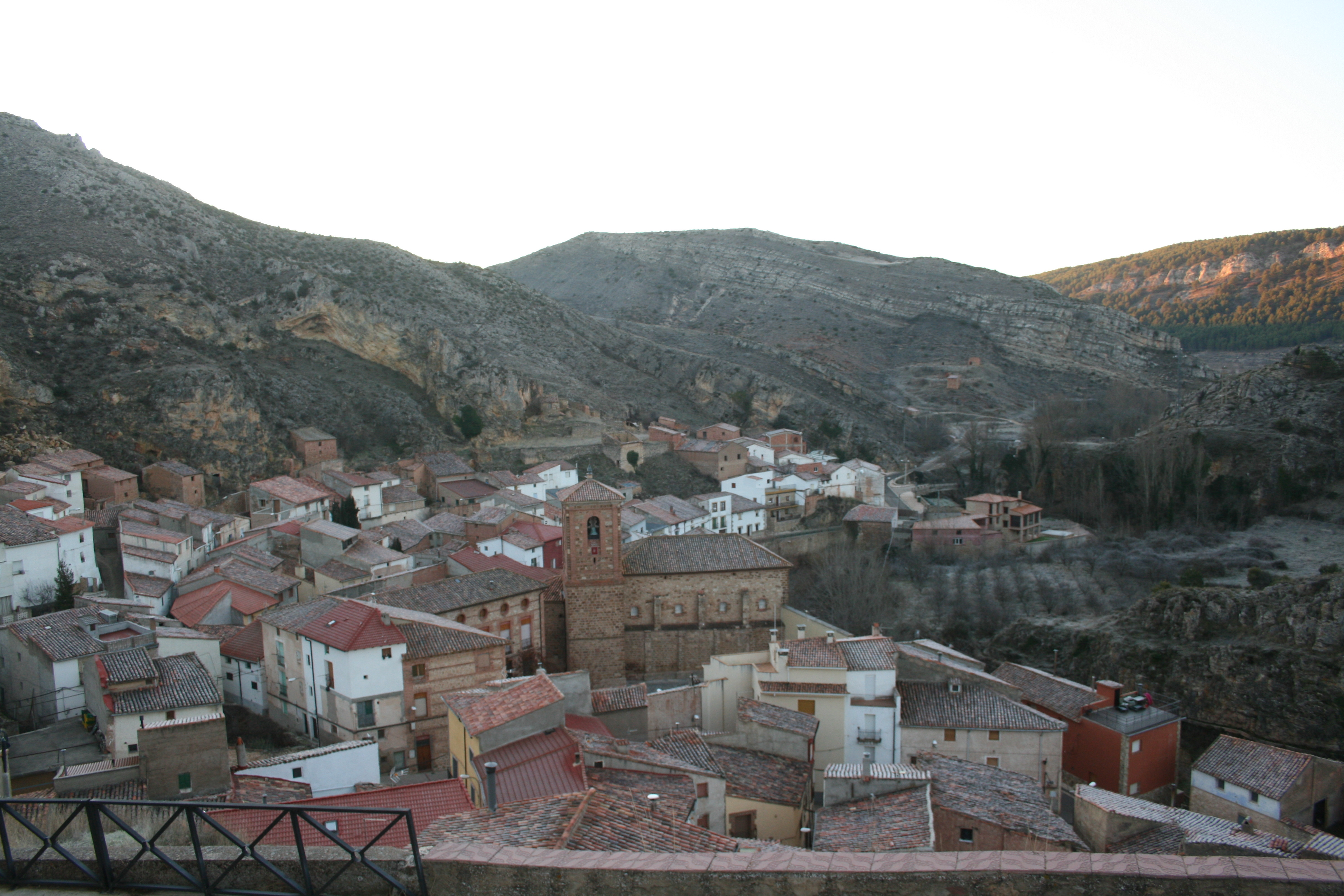 View of Bijuesca, Spain